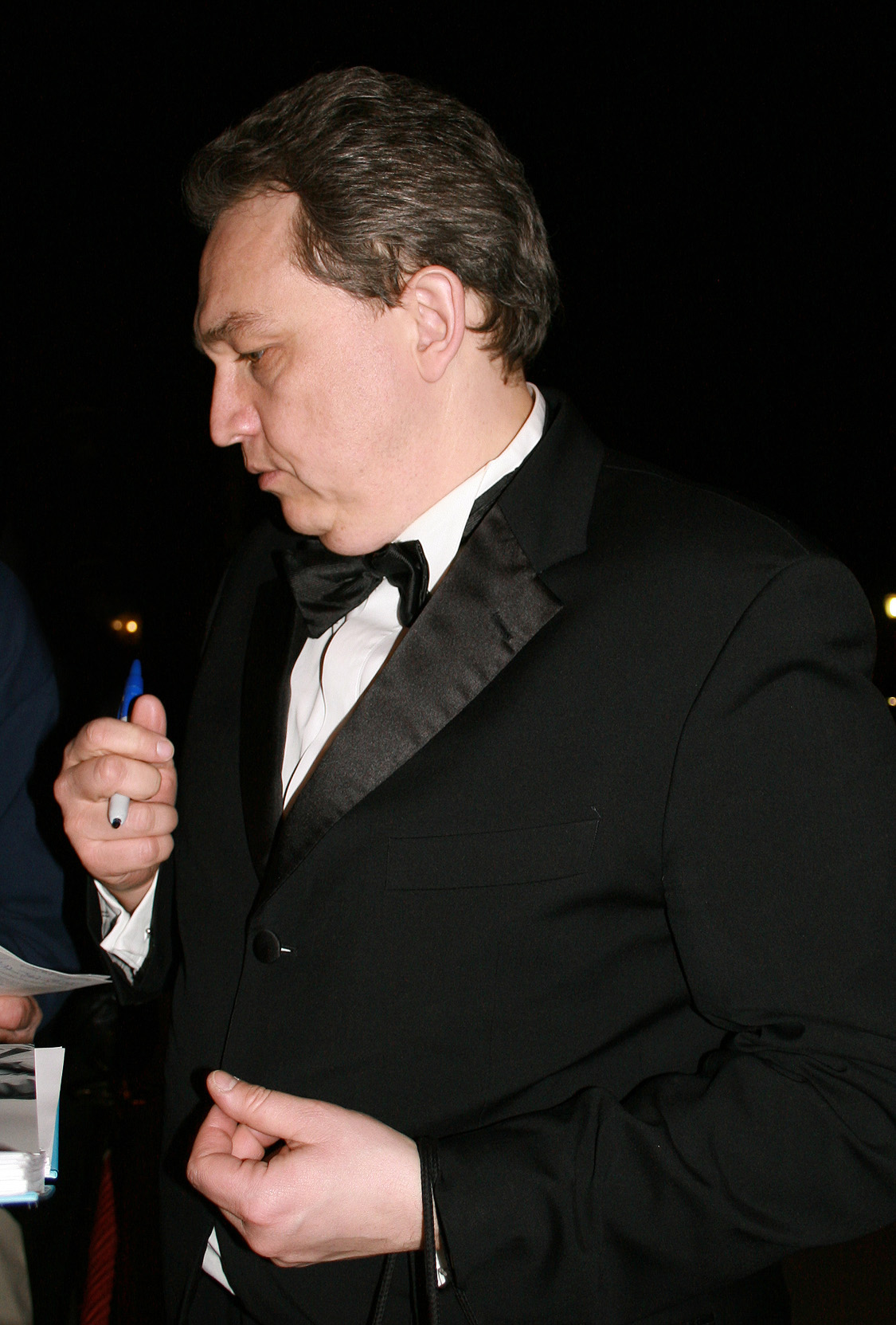 Oliver Kalkofe at the Romy TV awards (Hofburg Imperial Palace in Vienna)